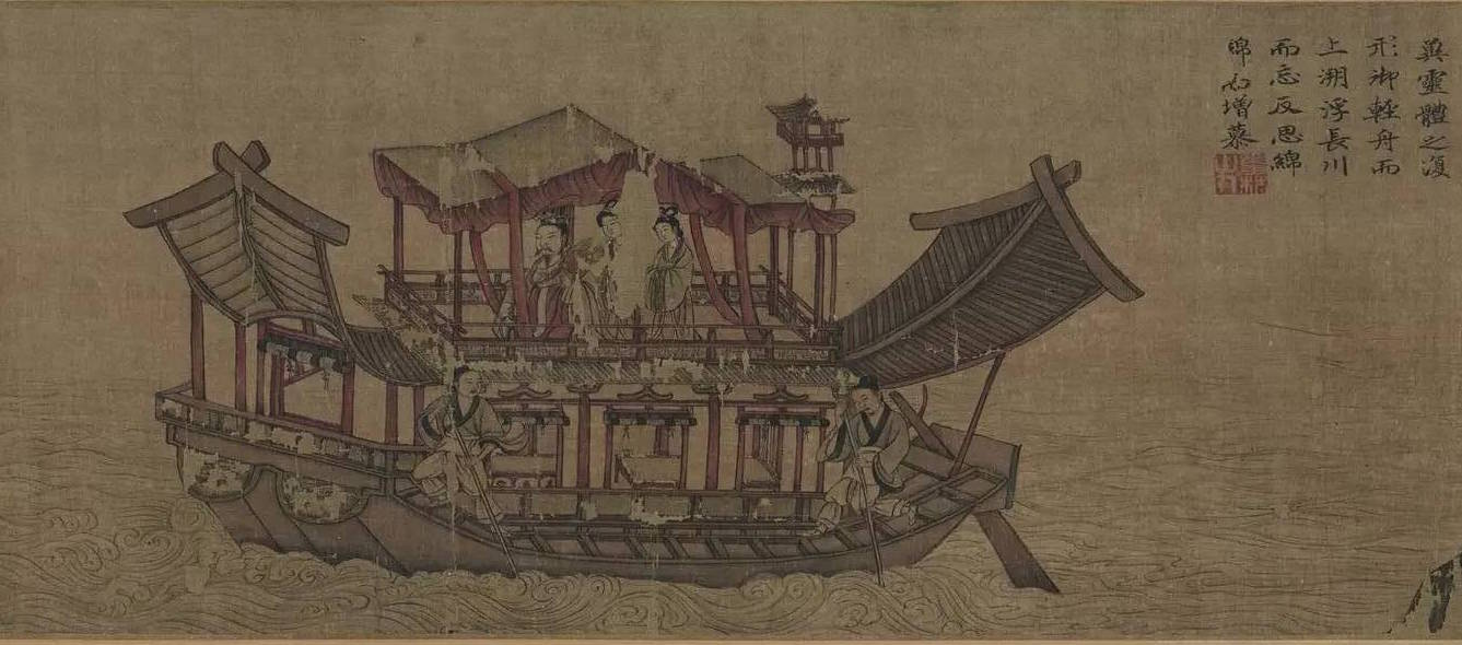 Goddess_of_luo_shui